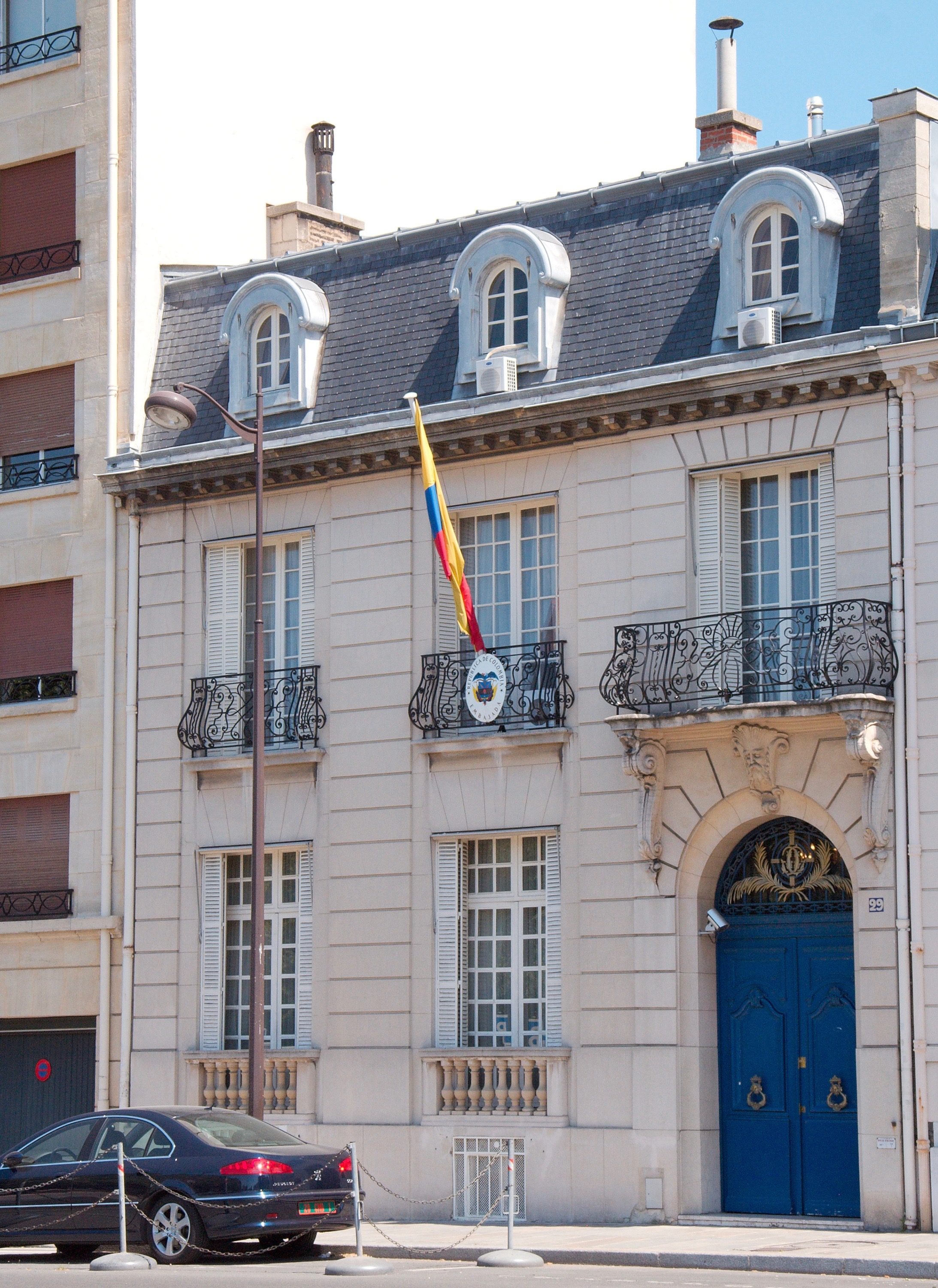 Colombian ambassador's residence in Paris, France.